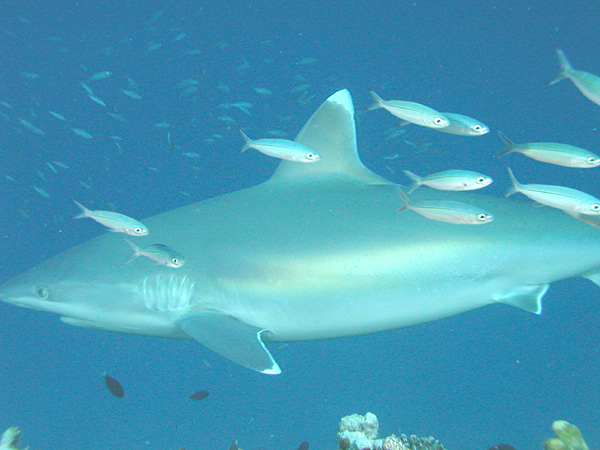 Silvertip Shark, New Hanover Island, Papua New Guinea. Image taken by Clark Anderson/Aquaimages.